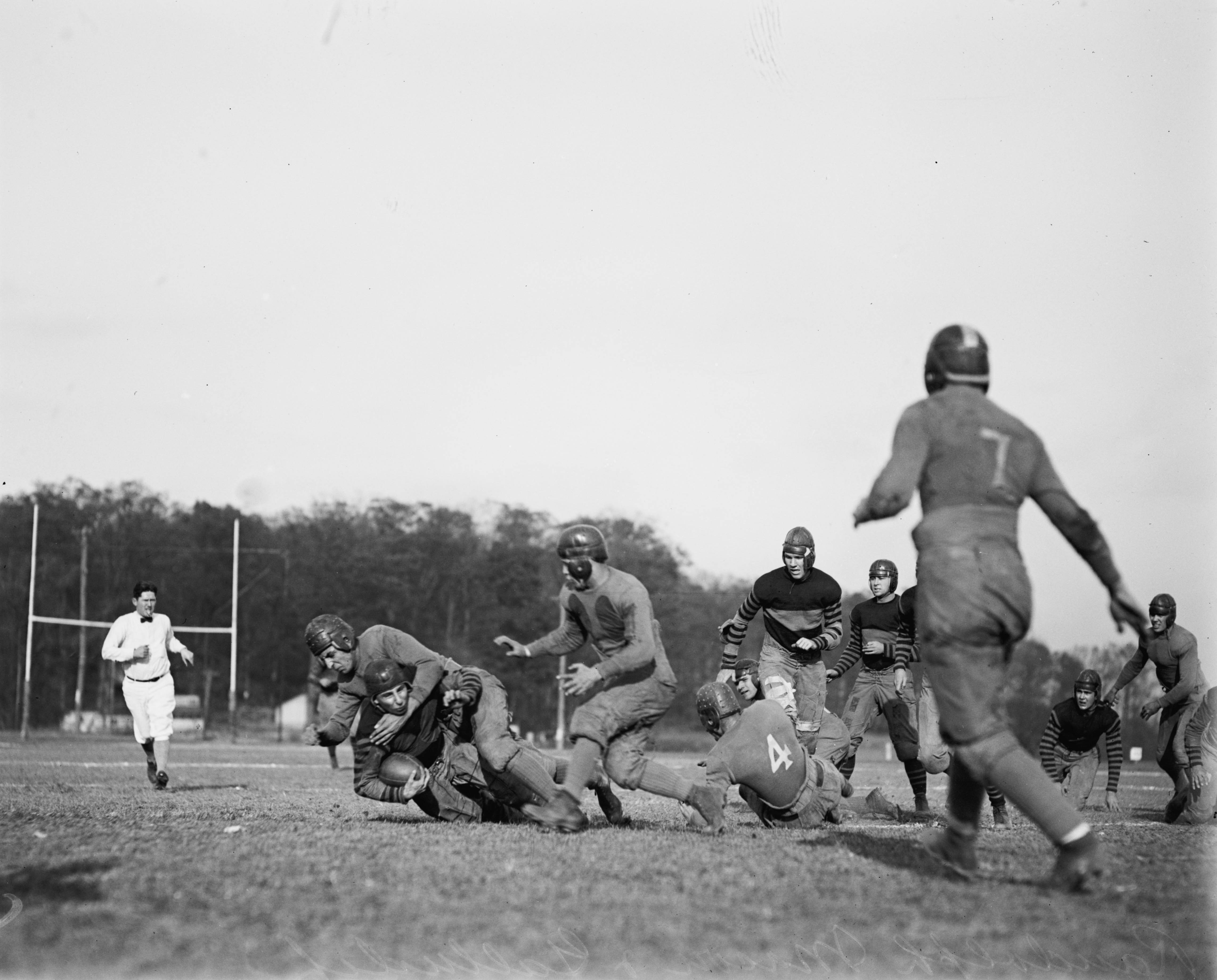 Title: Randolph Macon - Gallaudet, 11/17/23 Abstract/medium: National Photo Company Collection (Library of Congress) Physical description: 1 negative